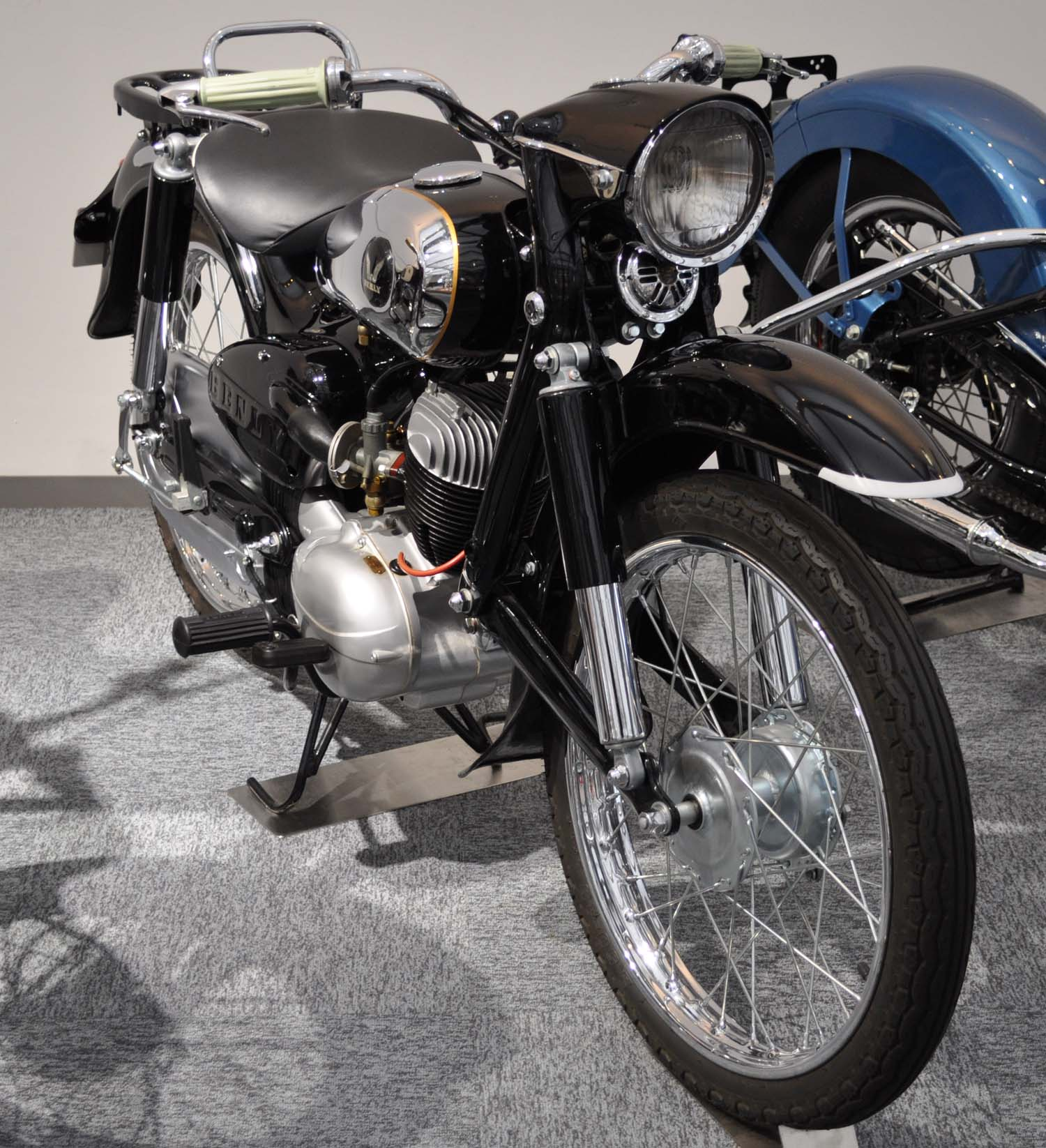 Honda Benly JC56 (1955)